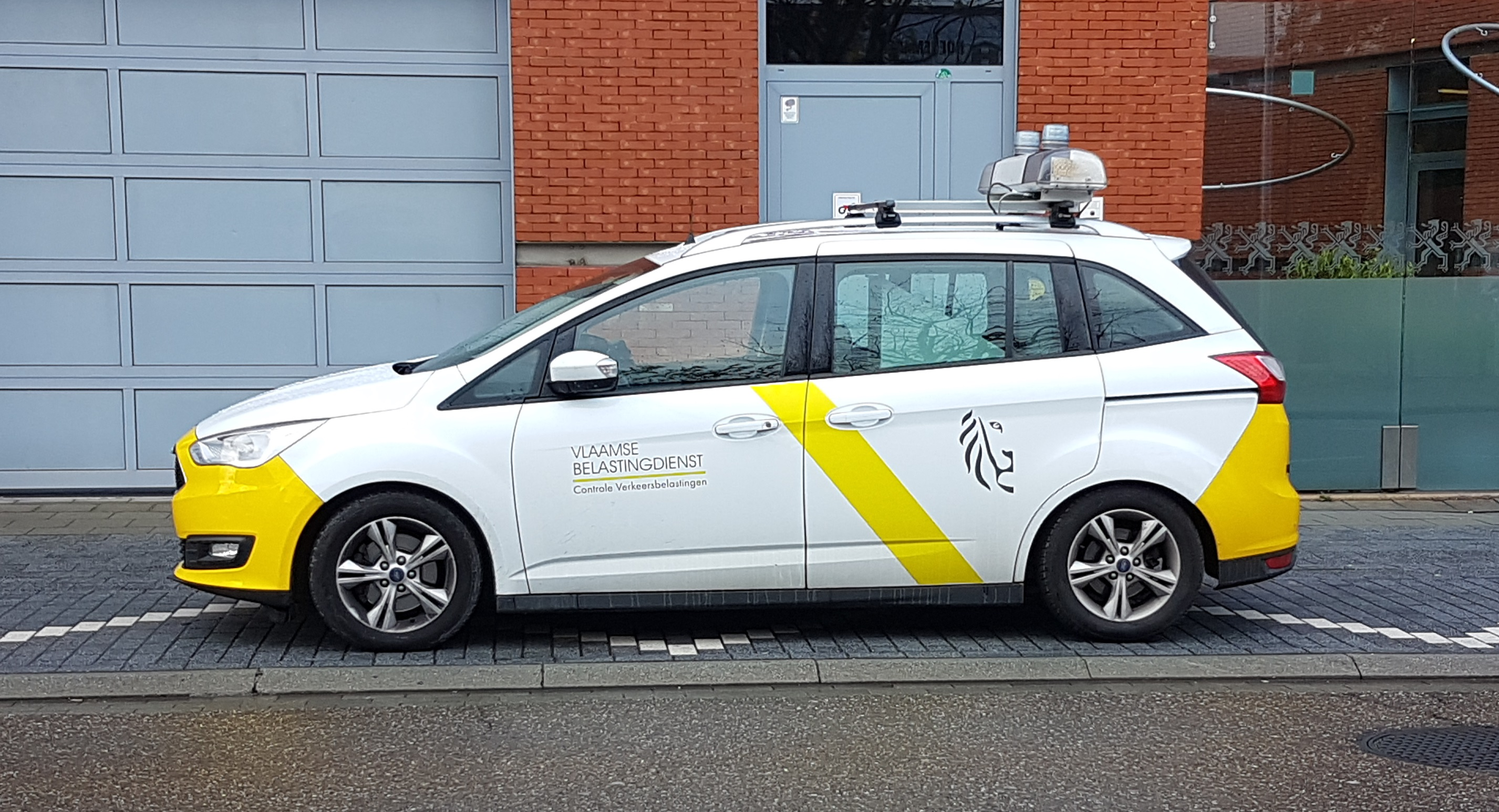 a car of the Flemish Tax Service (traffic tax audit) in Hasselt